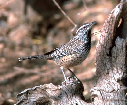 Cactus Wren, Campylorhynchus brunneicapillus derivative work: RexxS (talk) first upload in de wikipedia on 23:33, 24. Apr 2004 by Franz Xaver